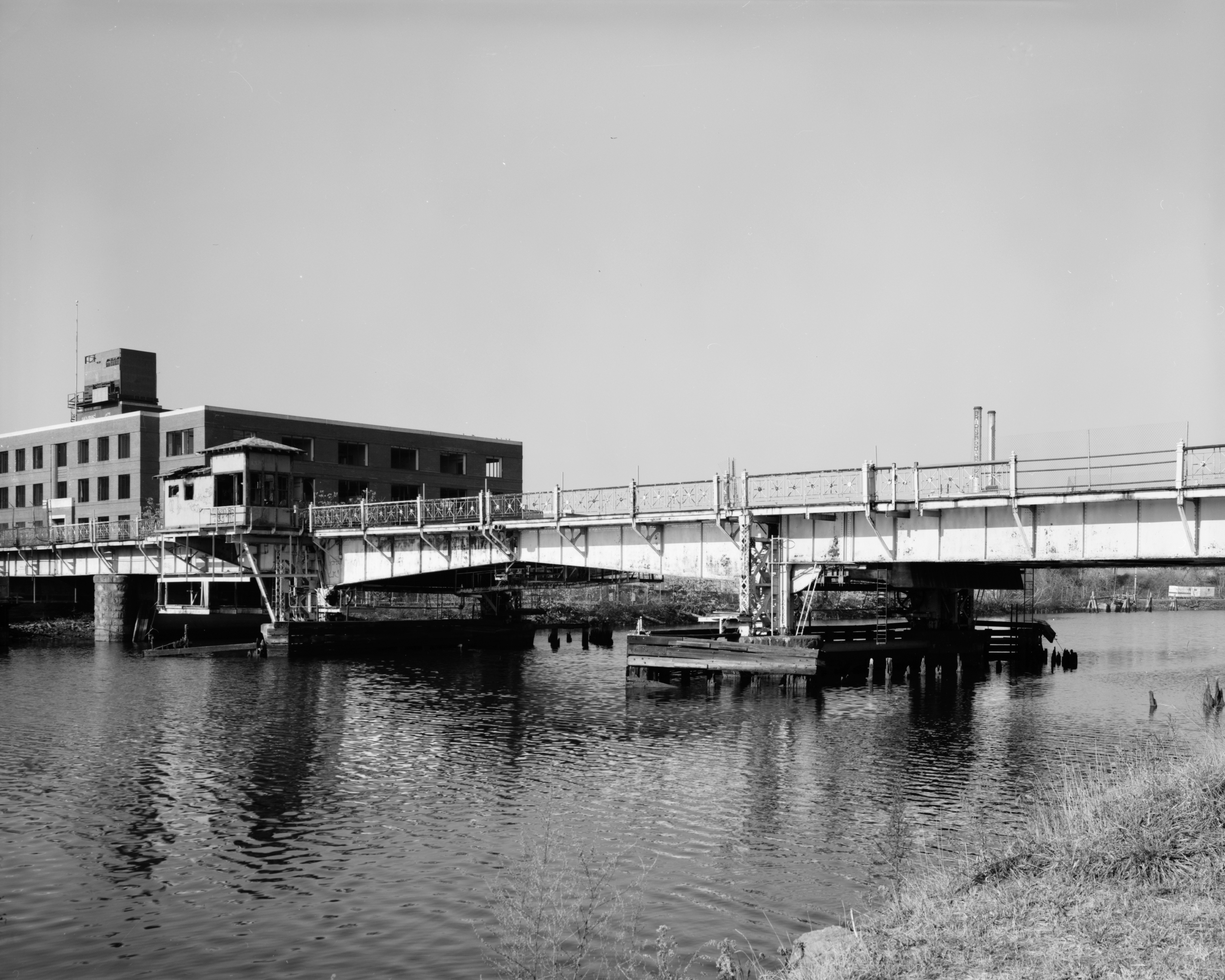 The Grand Street Bridge, spanning the Pequonnock River in Bridgeport, Fairfield County, CT. August 1995